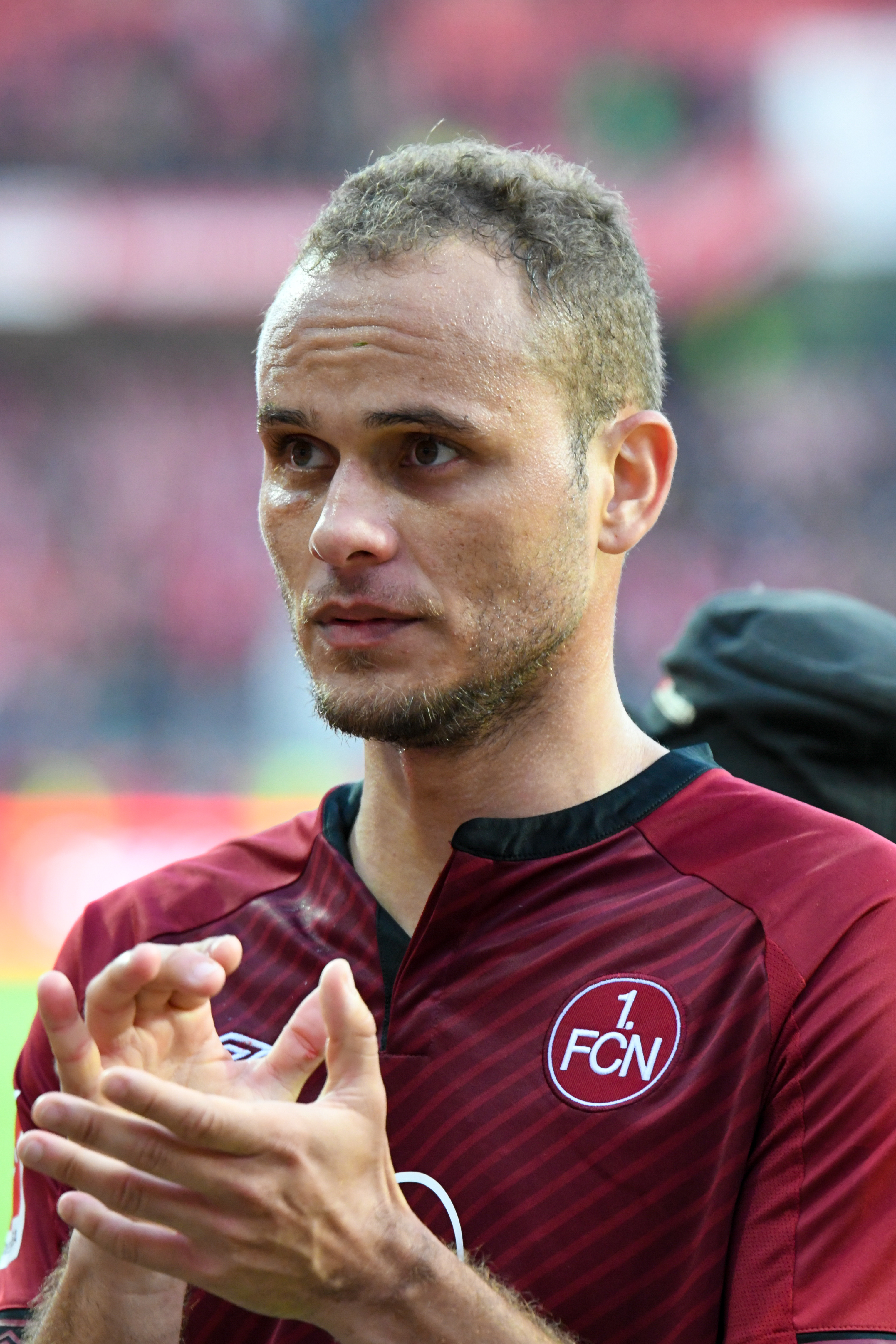 German Soccer League Season 2018/19, 31st match day 1. FC Nürnberg vs. 1. FC Bayern München. Picture shows: Ewerton of Nuremberg.